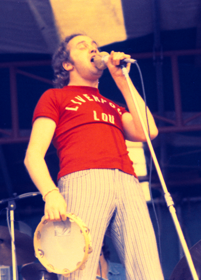 Roger Chapman (appearing with Chapman-Whitney Streetwalkers) Hyde Park concert, London, 29th June 1974